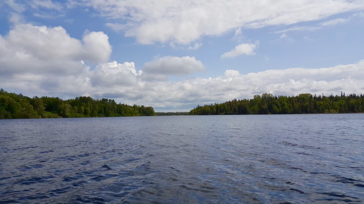 Stormy Lake, a lake in Captain Cook State Recreation Area, Kenai Peninsula, Alaska. It is also known as “Three Bays Lake” because it consists of three semi-separated areas, this image shows some open water in the foreground and the passage between two of those areas in the back